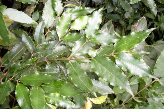 Daphnandra apatela on private property, Martinsville, NSW